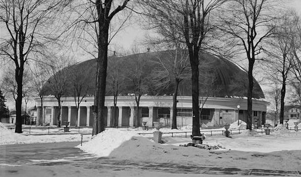 The Salt Lake Tabernacle of The Church of Jesus Christ of Latter-day Saints on Temple Square looking northwest, Feb 20, 1937.